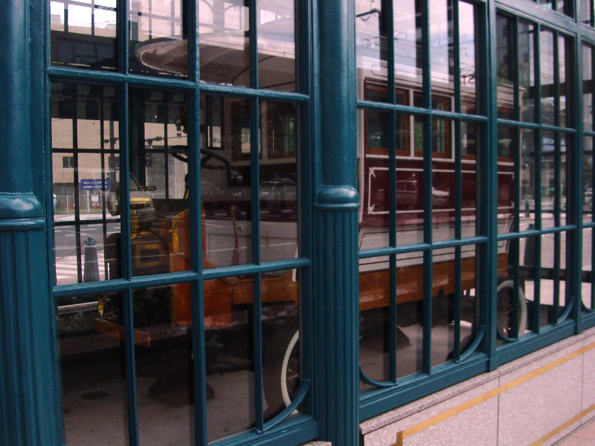 JR横川駅に展示する日本最初のバス Yokogawa Station display of Japan's first bus